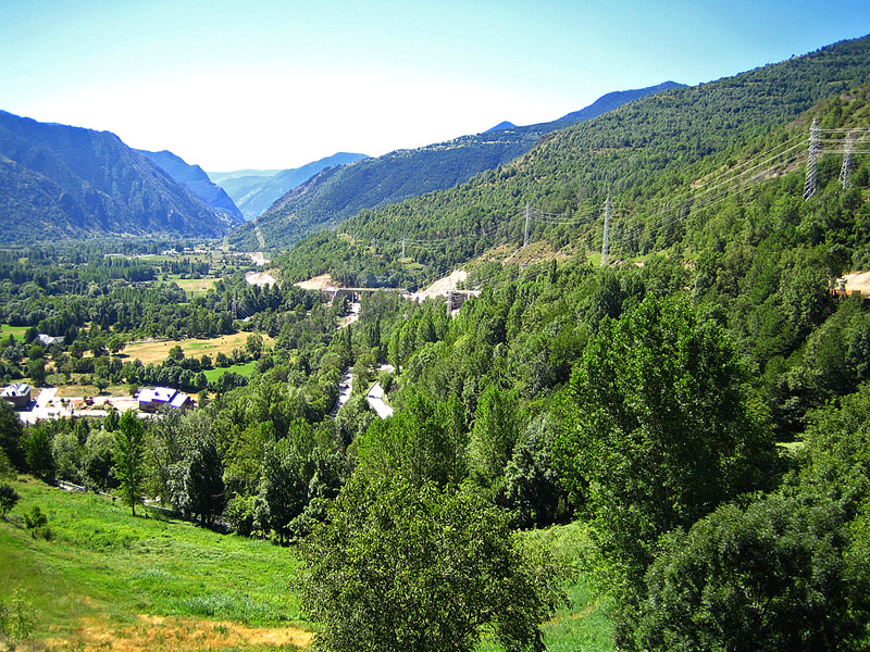 Vista de la vall d'Àneu des de València d'Àneu i mirant en direcció sud-est. View of the Àneu Valley.